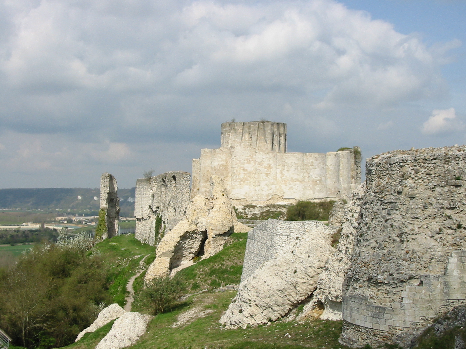 Chateau gaillard (France, Normandy)